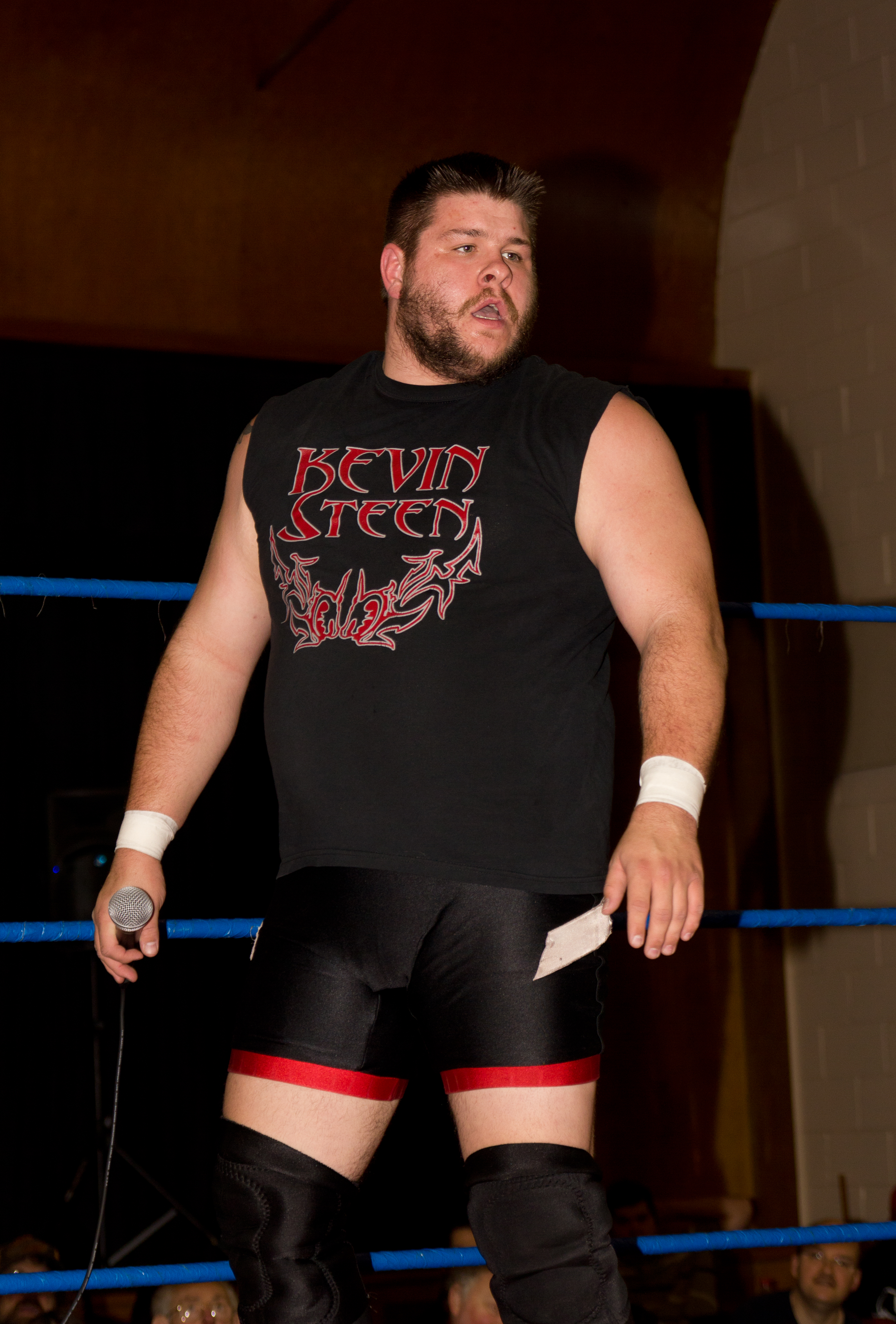 Kevin Steen at the GCW "Season's Beatings" show